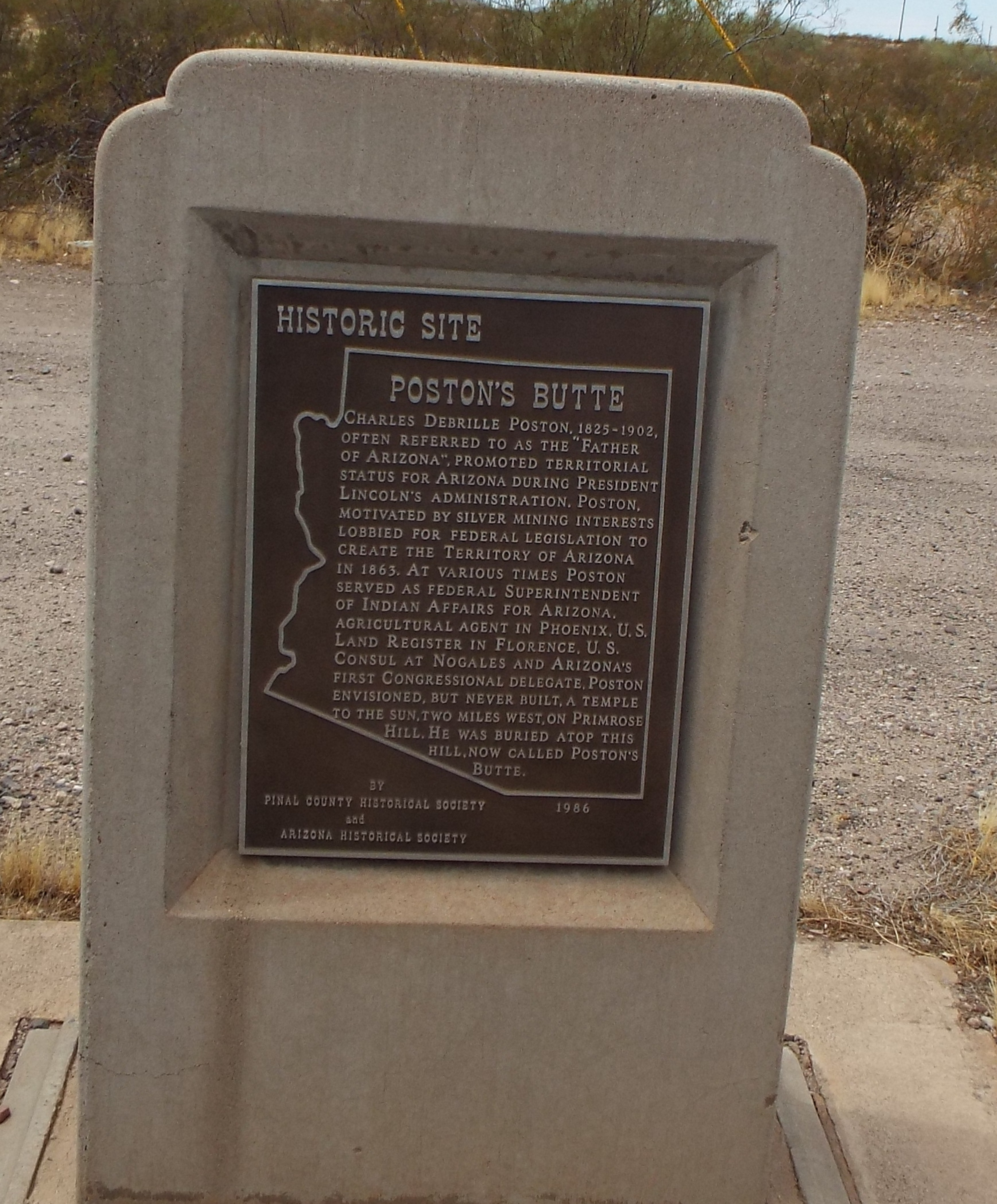 Poston's Butte Historic Marker in Florence, Arizona